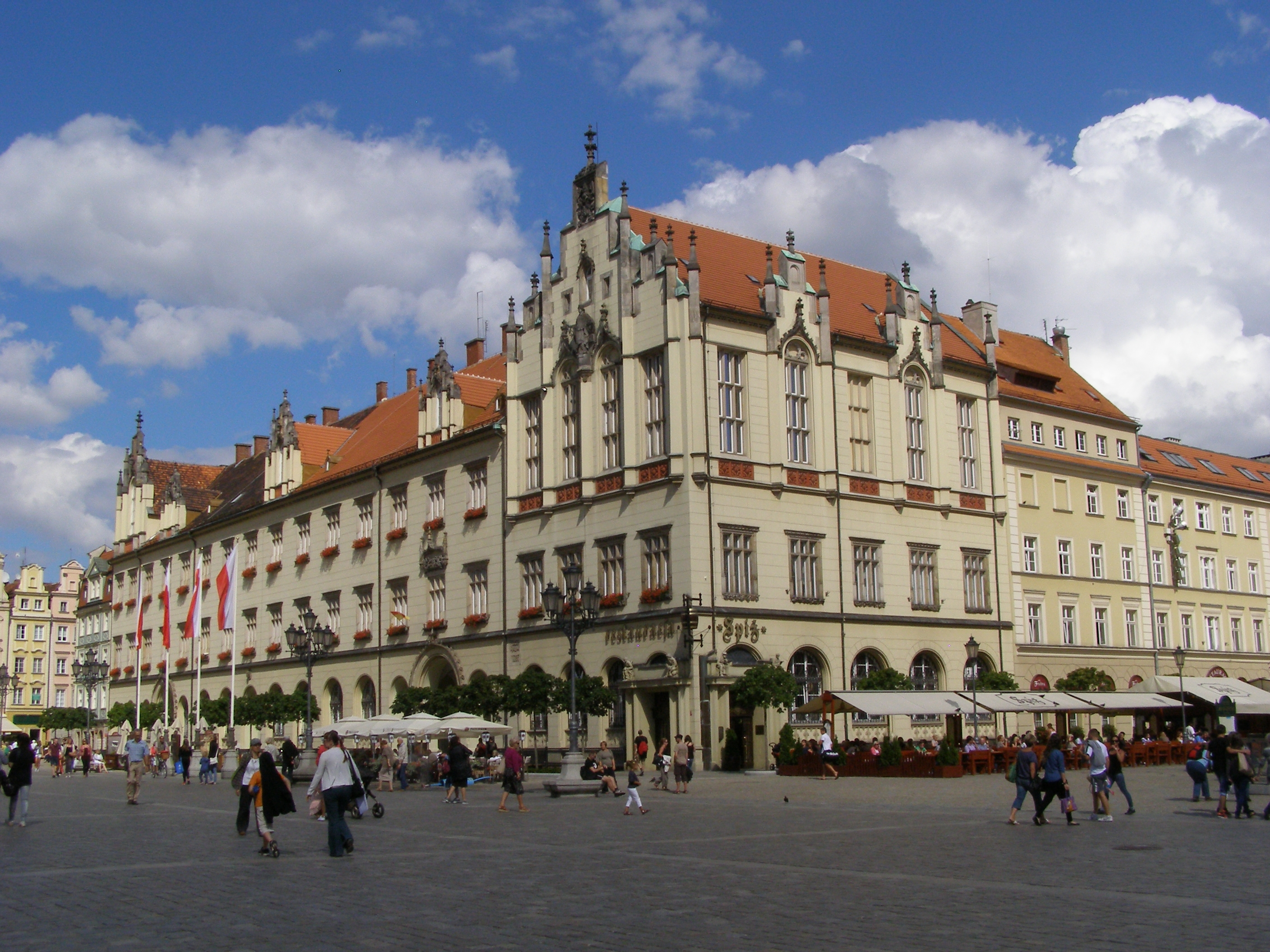 Wrocław - New Town Hall